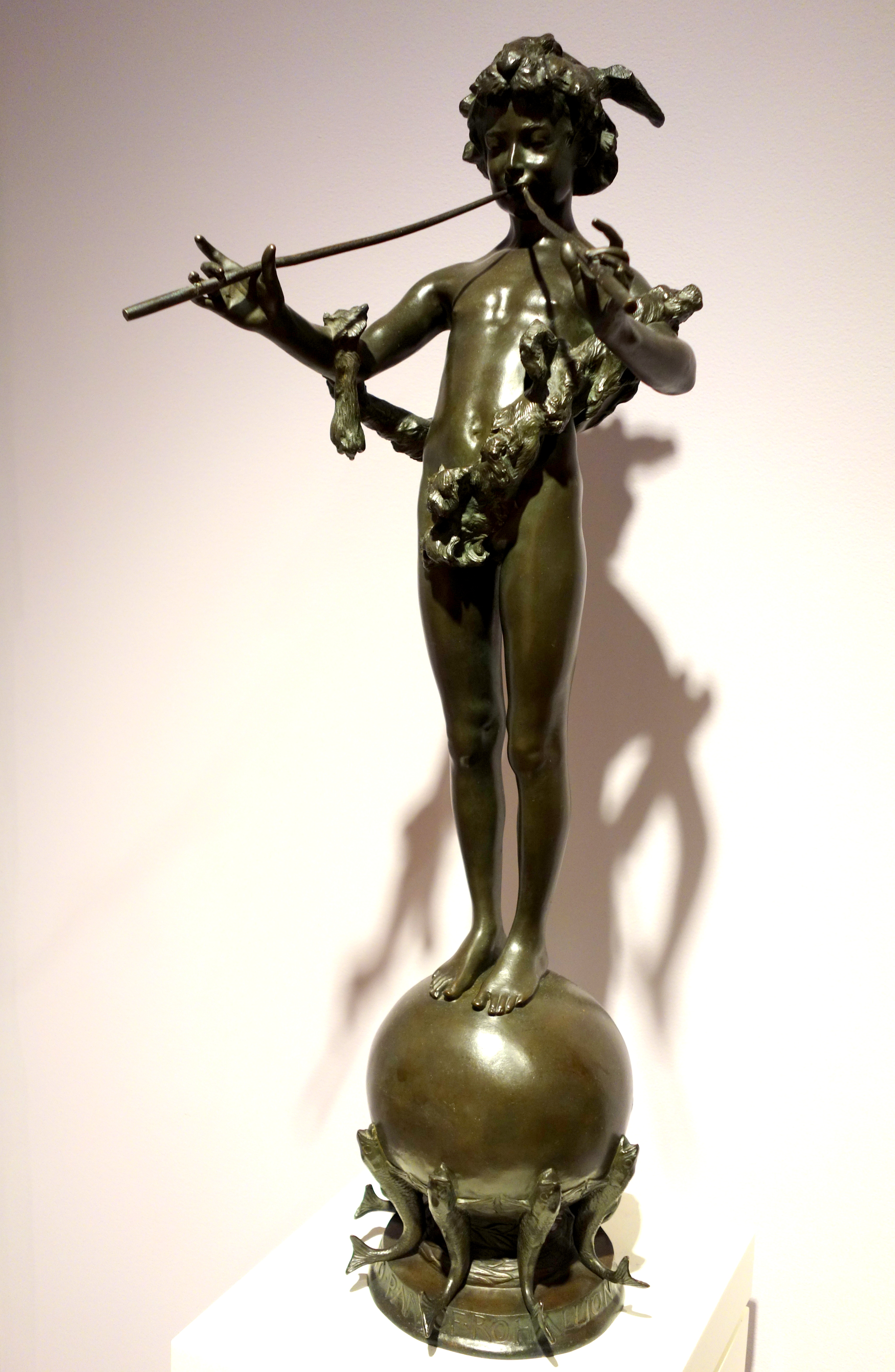 Pan of Rohallion by Frederick William MacMonnies, 1890, cast 1894, bronze - New Britain Museum of American Art, New Britain, Connecticut, USA. This artwork is in the public domain because the artist died more than 70 years ago. The museum permitted photographs of this exhibit without restriction.